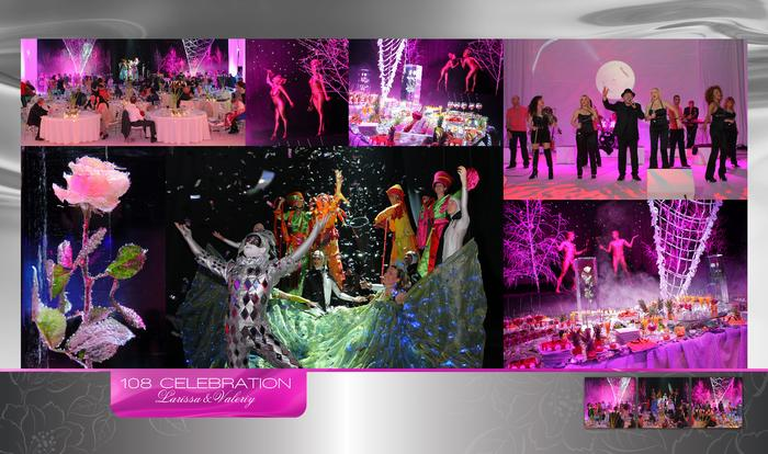 exclusive birthday party in Geneve for rich and famous